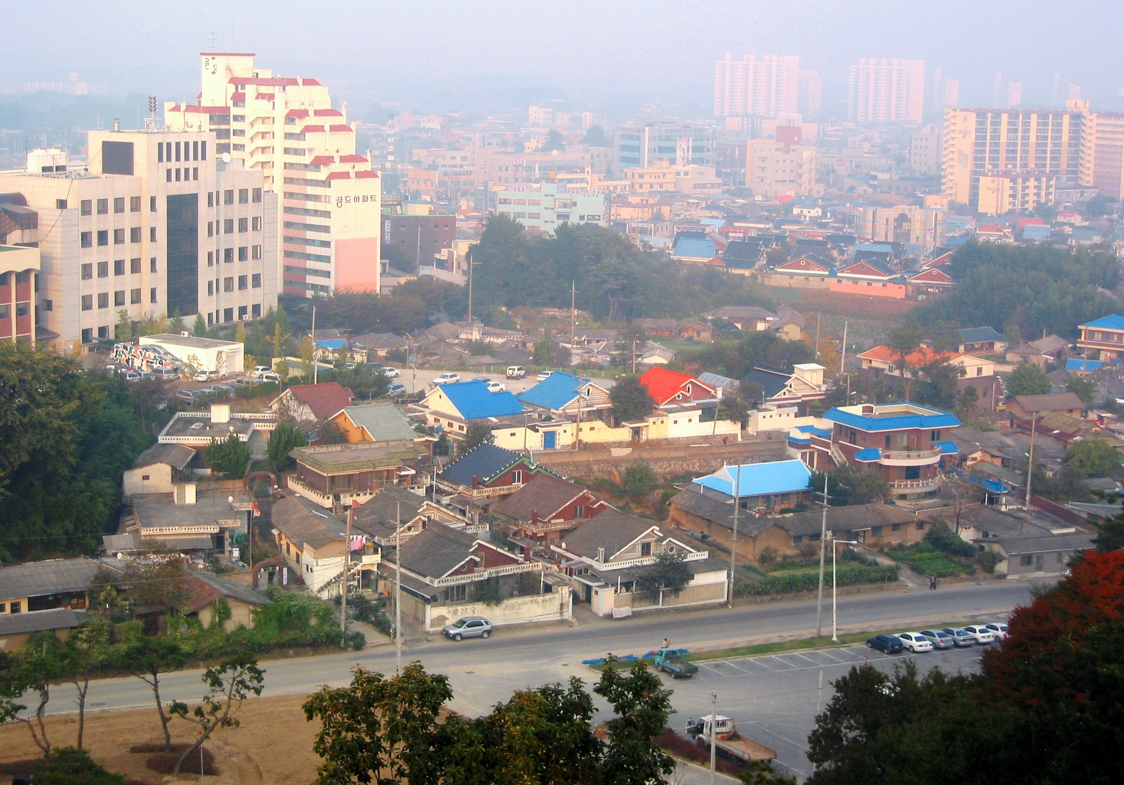 the hill at the end of town the air was hazy because it was autumn and they were burning rice straw in the fields